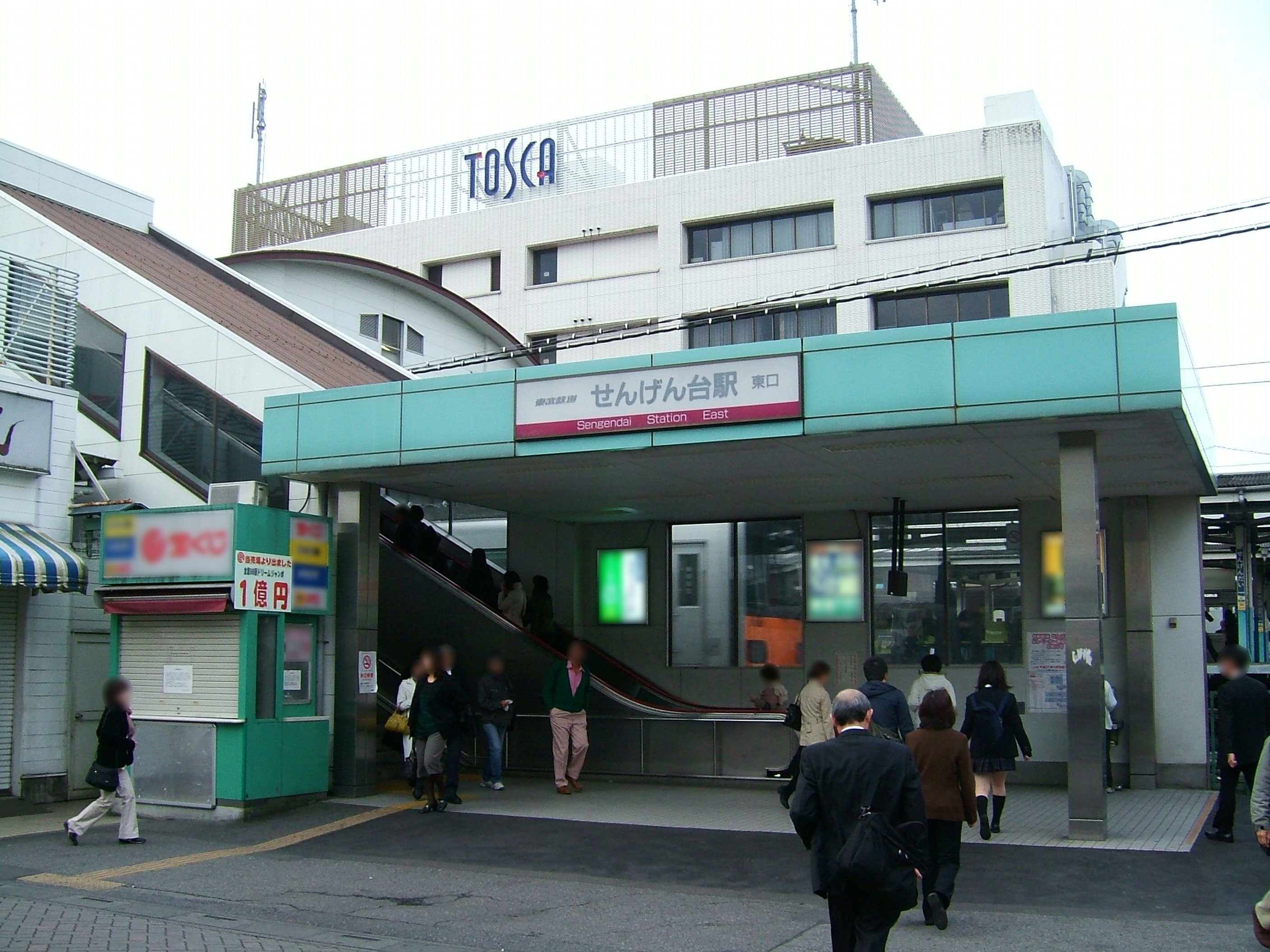 Sengendai Station east side (Tōbu Railway Isesaki Line)